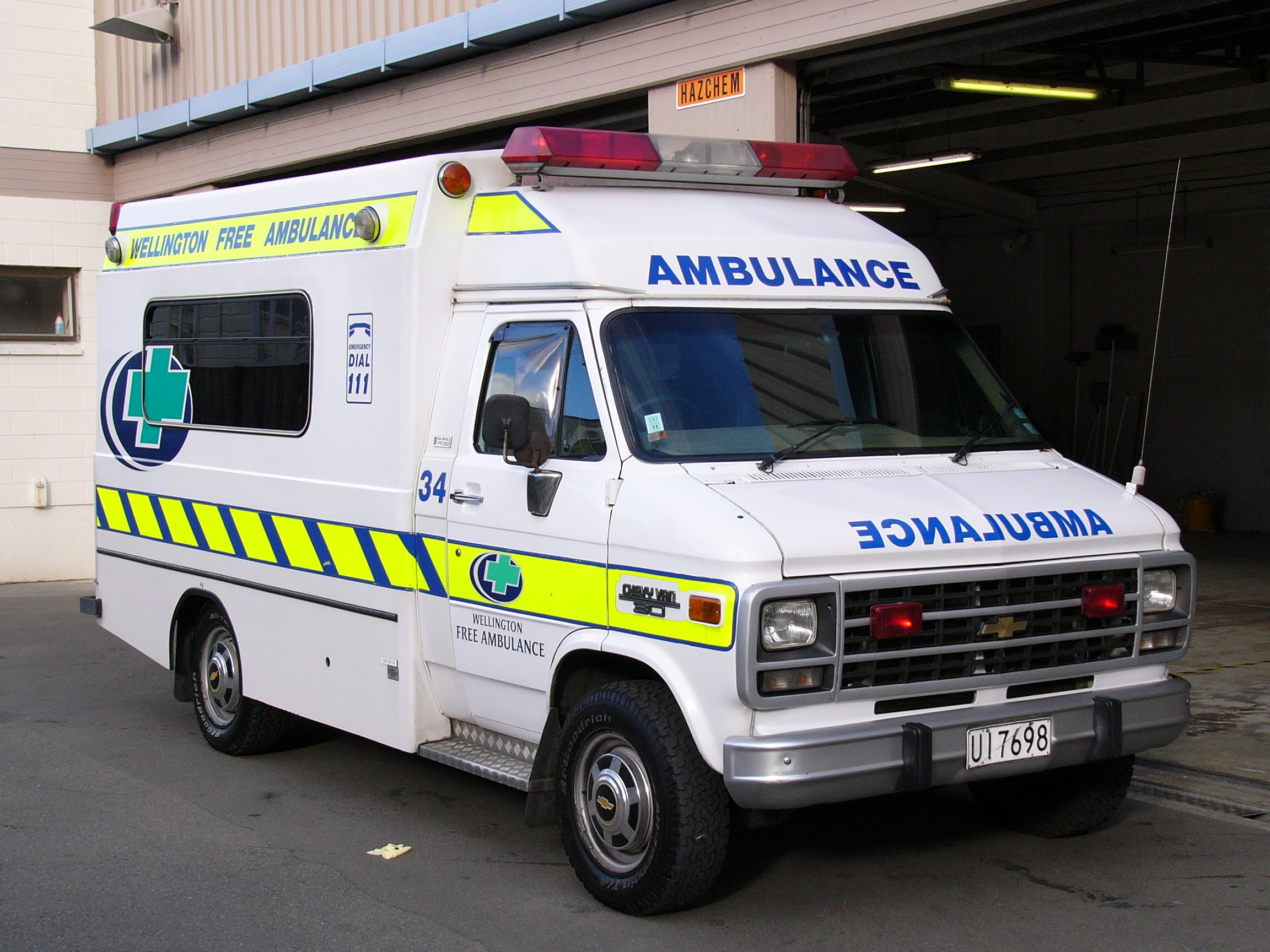 More photos at